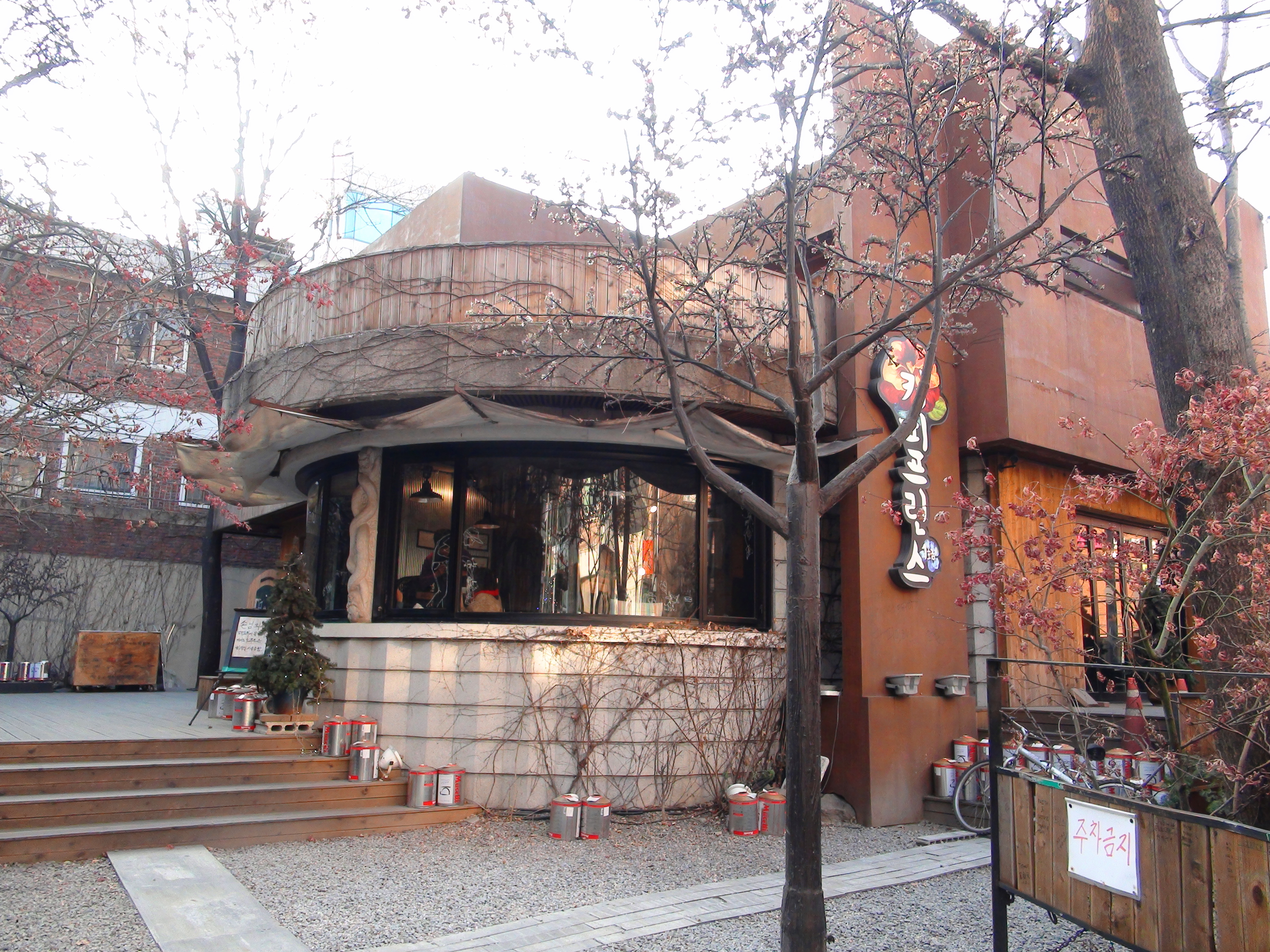 Korean TV drama "The first coffeeprince shop " in restaurants of Location